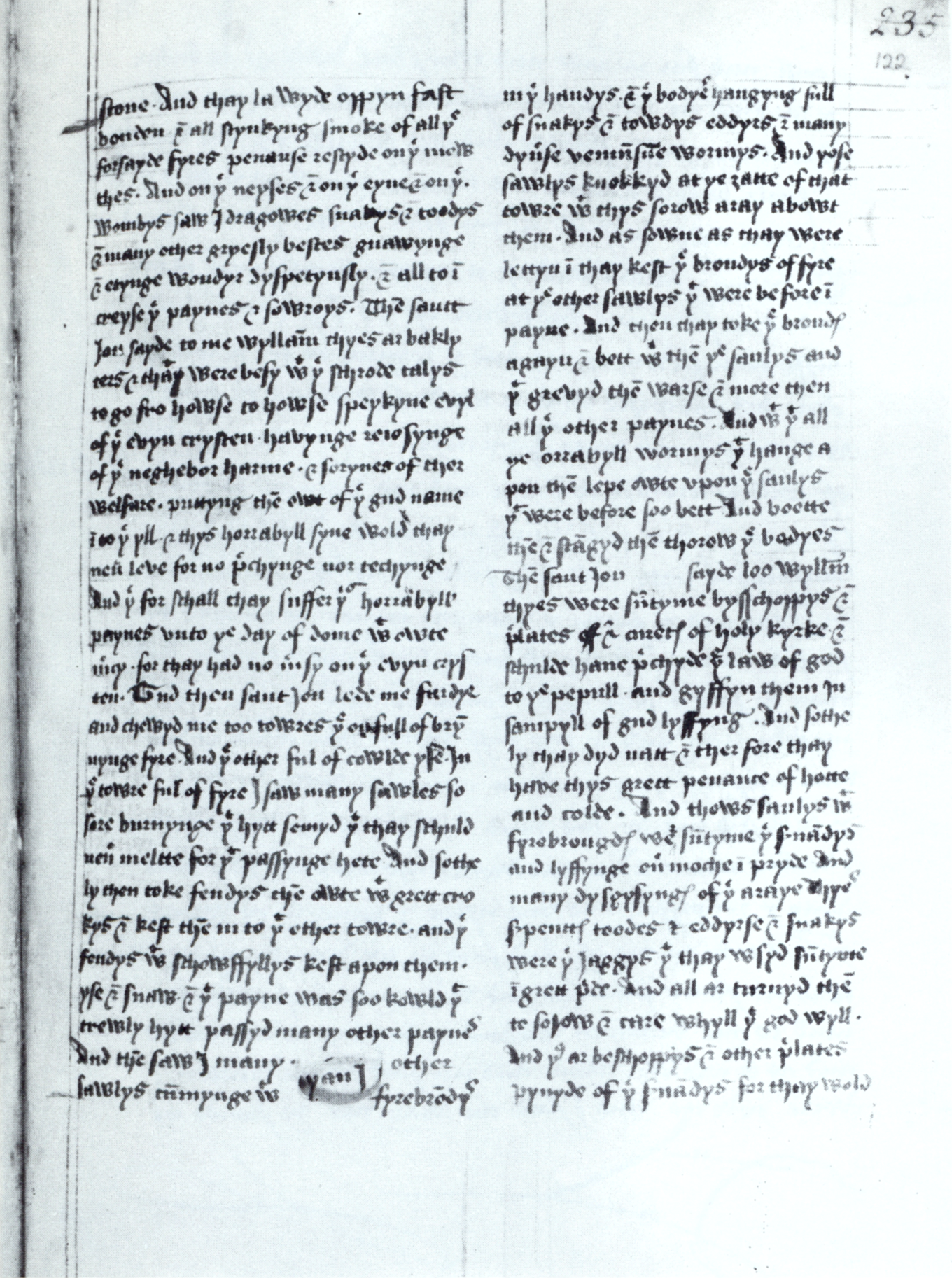 Folio 122r out of MS Additional 34,193 at British Library, showing an excerpt of a 15th-century Middle English prose text of The Vision of William of Stranton. The shown text continues the sentence And then Sant Jon lede me aboue þe roche, and þer I saw many saulys closyd wythin a wall of (the transcription has been taken from p. 97 of the cited source): stone, and thay la[y] wyde oppyn fast bonden, and all stynkyng smoke of all þe forsayde fyres [of] penanse restyde on þer mowthes, and on þer neyses, and on þer eyne; and on þer wombys saw I dragow[n]es, snakys and toodys, and many other gryesly bestes, gnawynge and etynge wondyr dyspetyusly, and all to increyse þer paynes and sowroys.